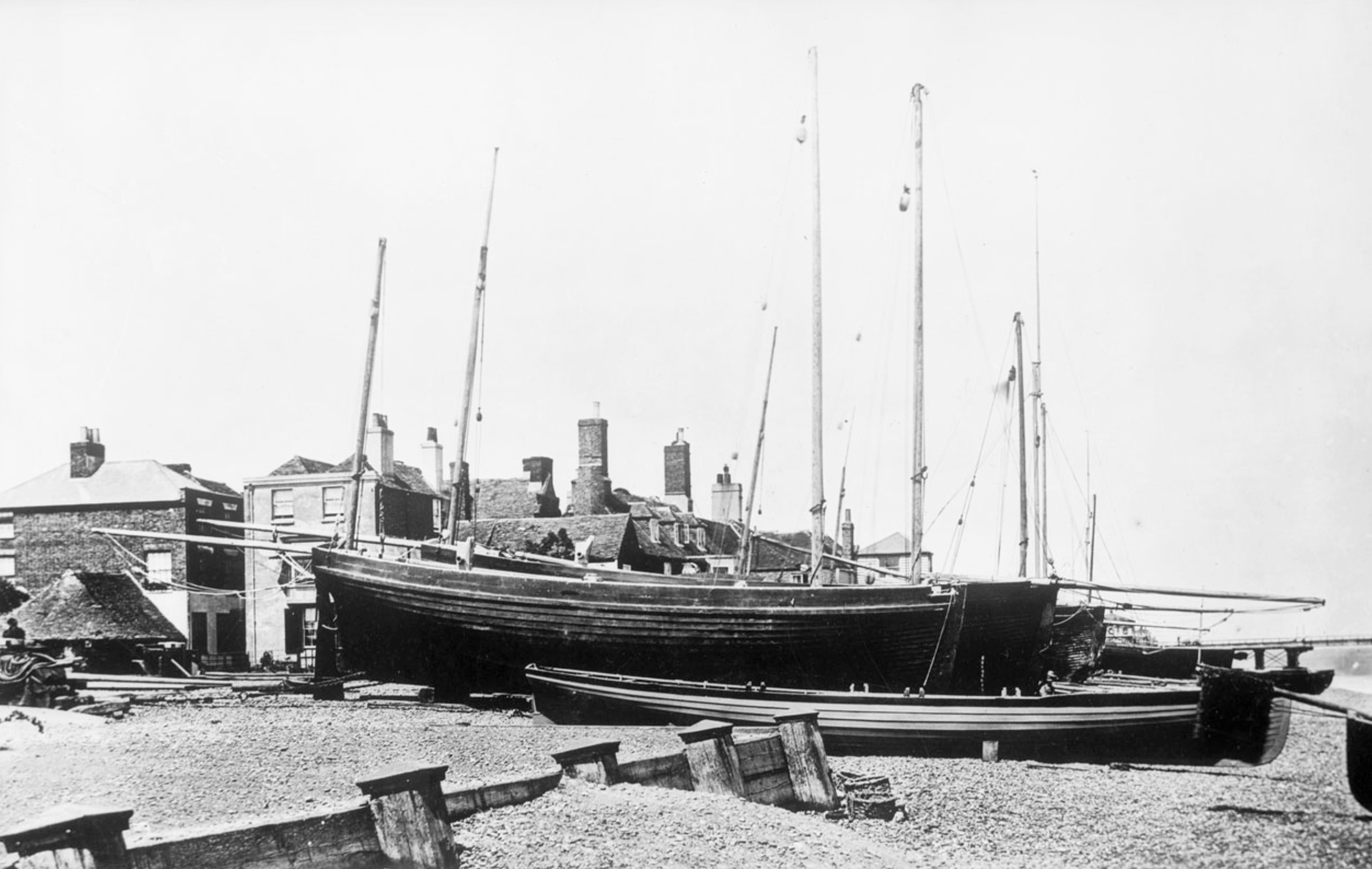 This shows 2 of the types of craft used by the Deal boatmen. In the foreground is Deal galley. The galley was used to take people out to ships anchored in the Downs. The larger boats are Deal luggers. These could carry heavy loads out to ships.